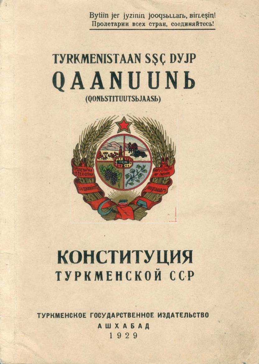 1929 edition of the Constitution of the Turkmen SSR